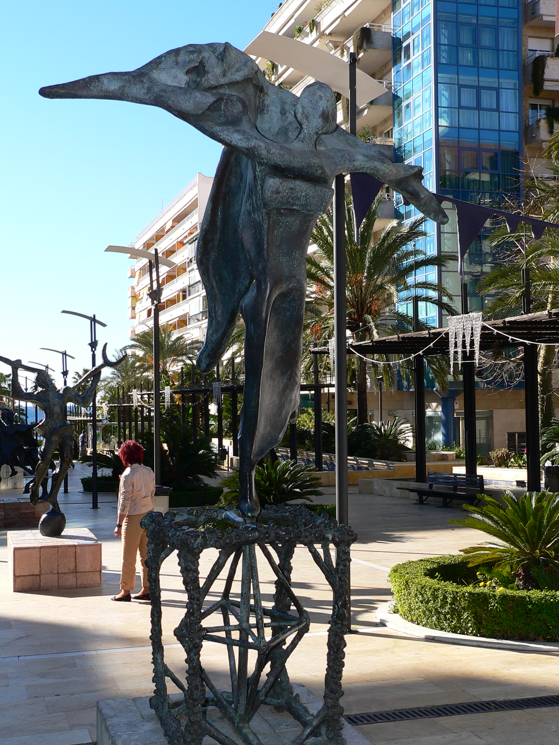 Description: Gala Gradiva Subject: Sculpture Artist : Salvador Dalí City : Marbella Country : Spain Photographer: © Manuel González Olaechea y Franco Shot date : January, 3rd, 2006